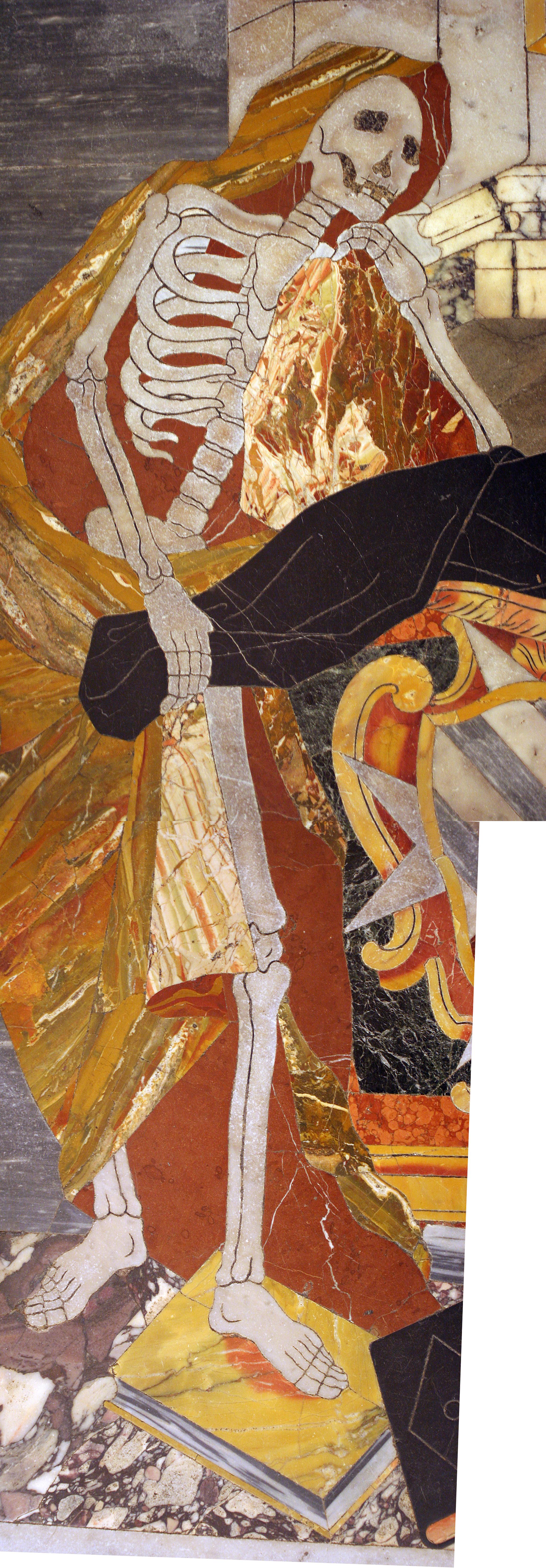 Malta, Valletta, detail from tomb slab of a knight of St. John (Knights Hospitaller)